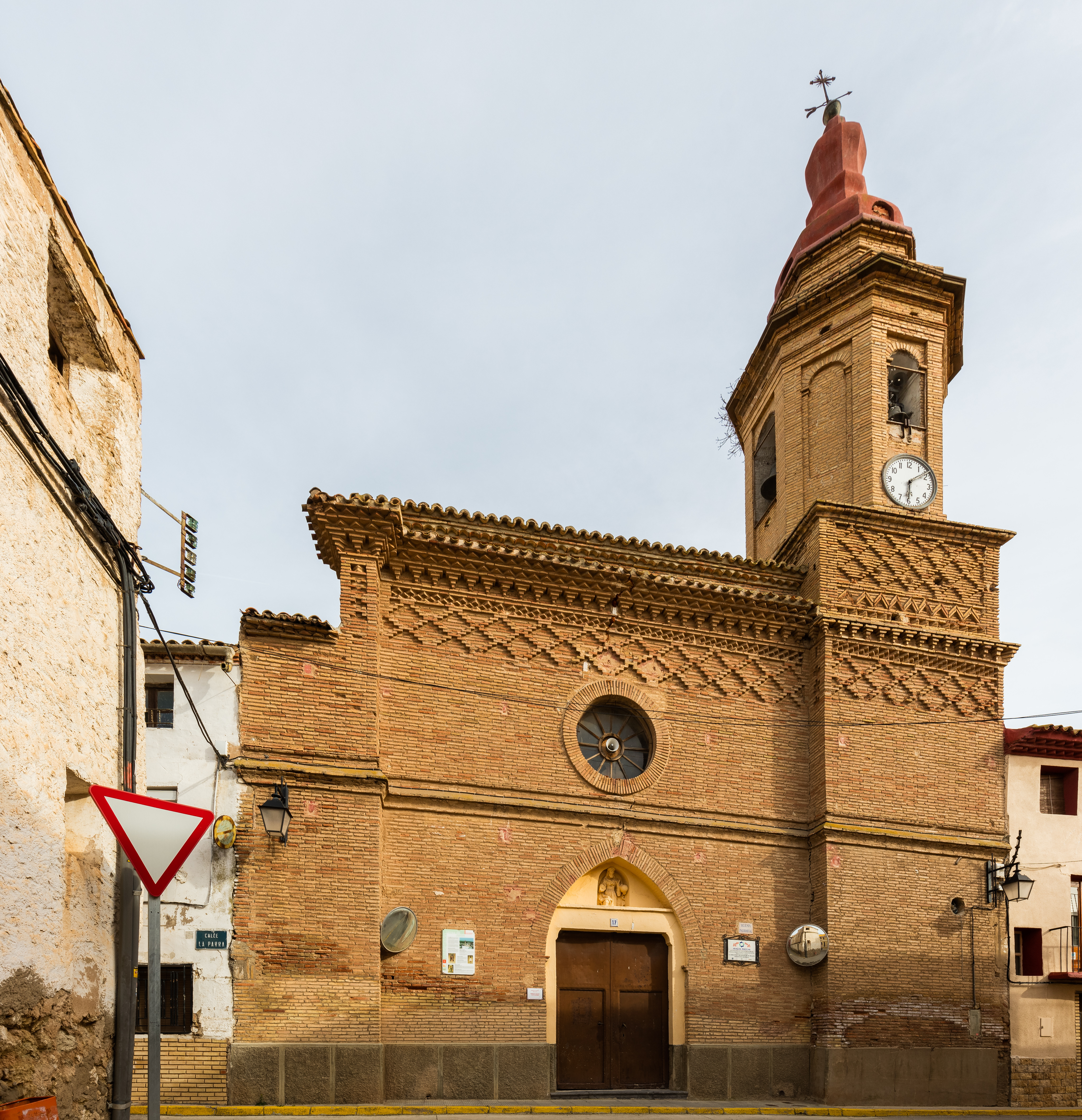 Church of St Salvador, Urrea de Jalón, Zaragoza, Spain